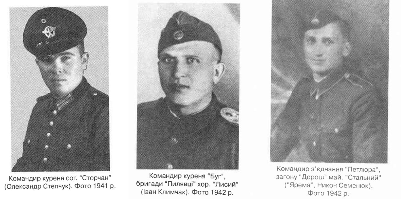 Commanders of the Ukrainian Insurgent Army in 1941-1942